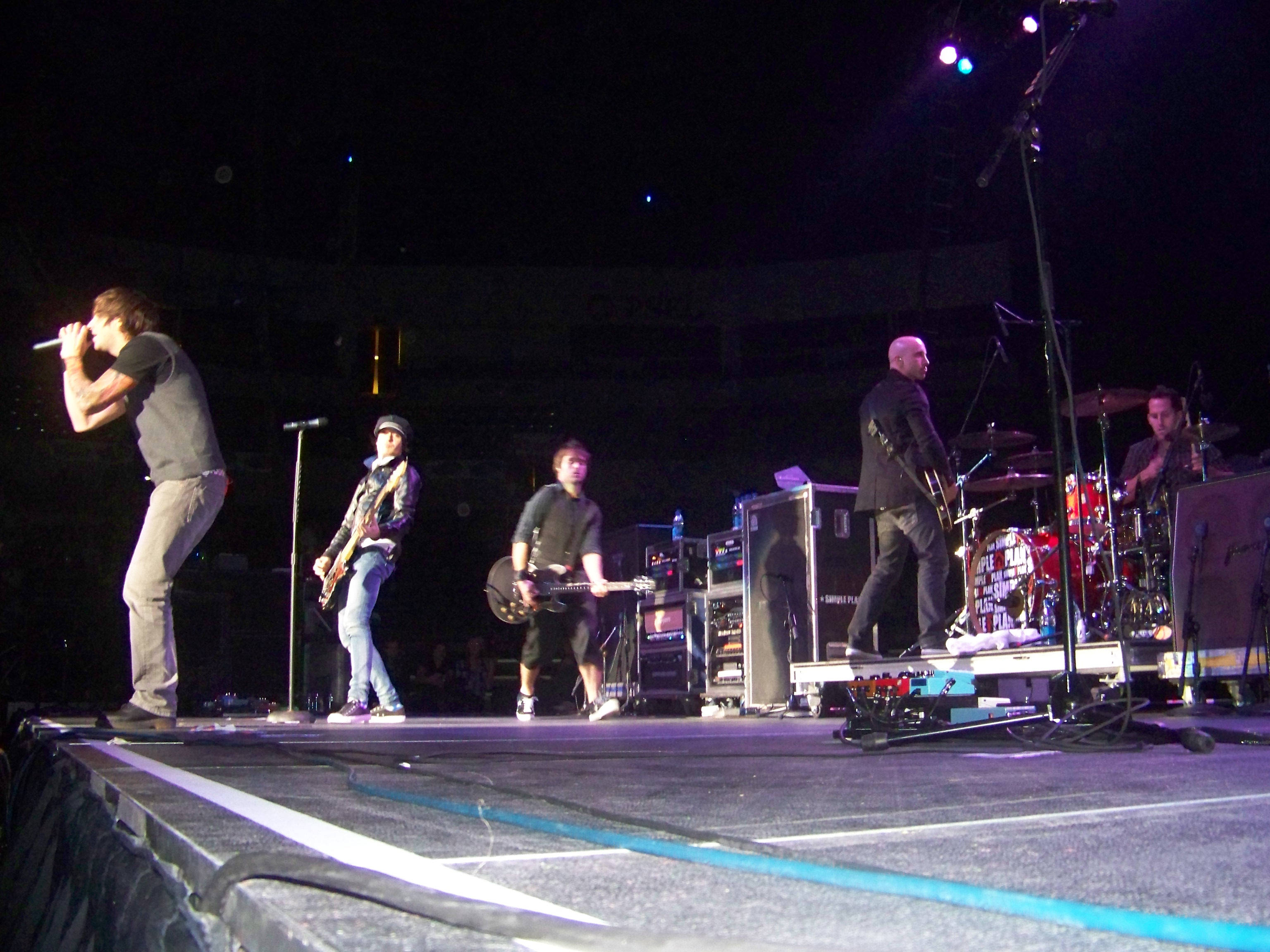 Simple Plan onstage, Sovereign Bank Arena, Trenton NJ